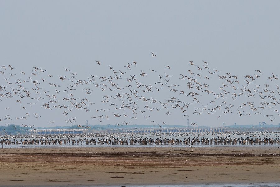 DucksPulicat